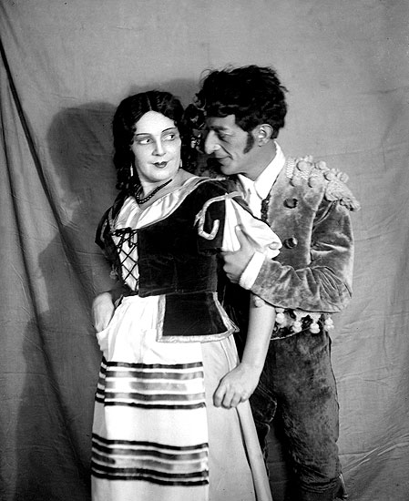 Mardanov as Figaro